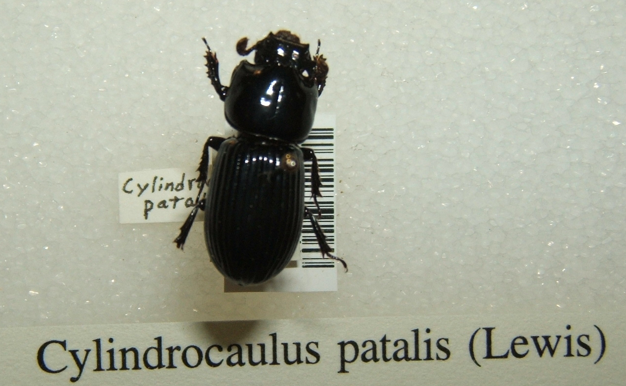 Cylindrocaulus patalis adult taken by Shawn Hanrahan at the Texas A&M University Insect Collection in College Station, Texas.